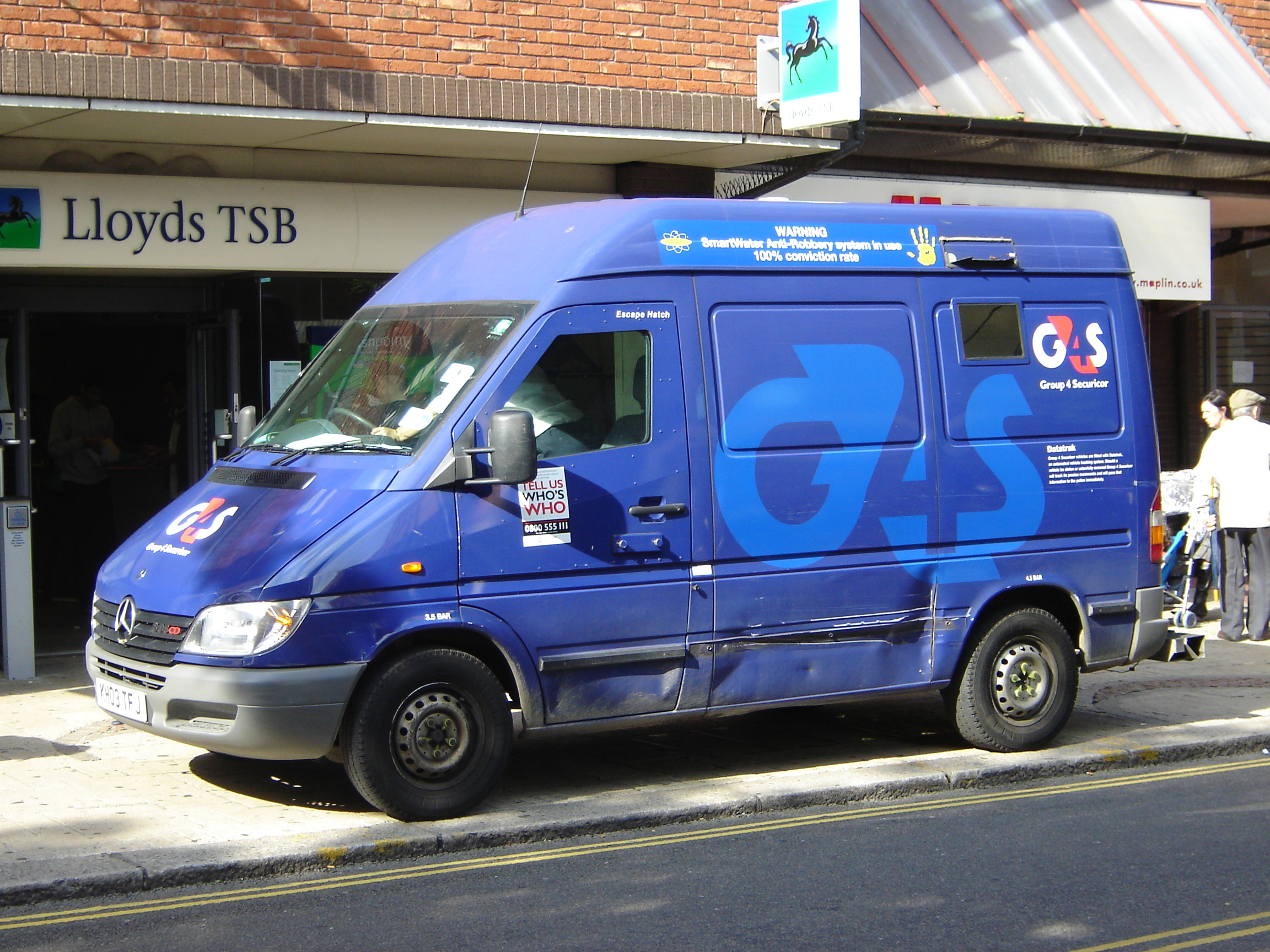 G4S van making a delivery.